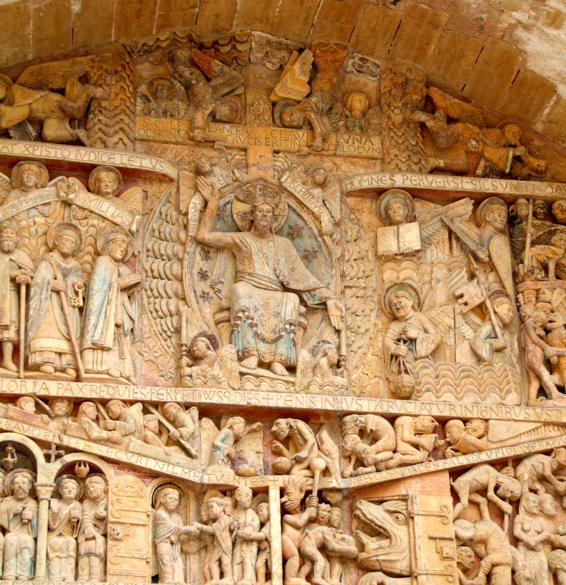 Conques, Aveyron, FRANCE